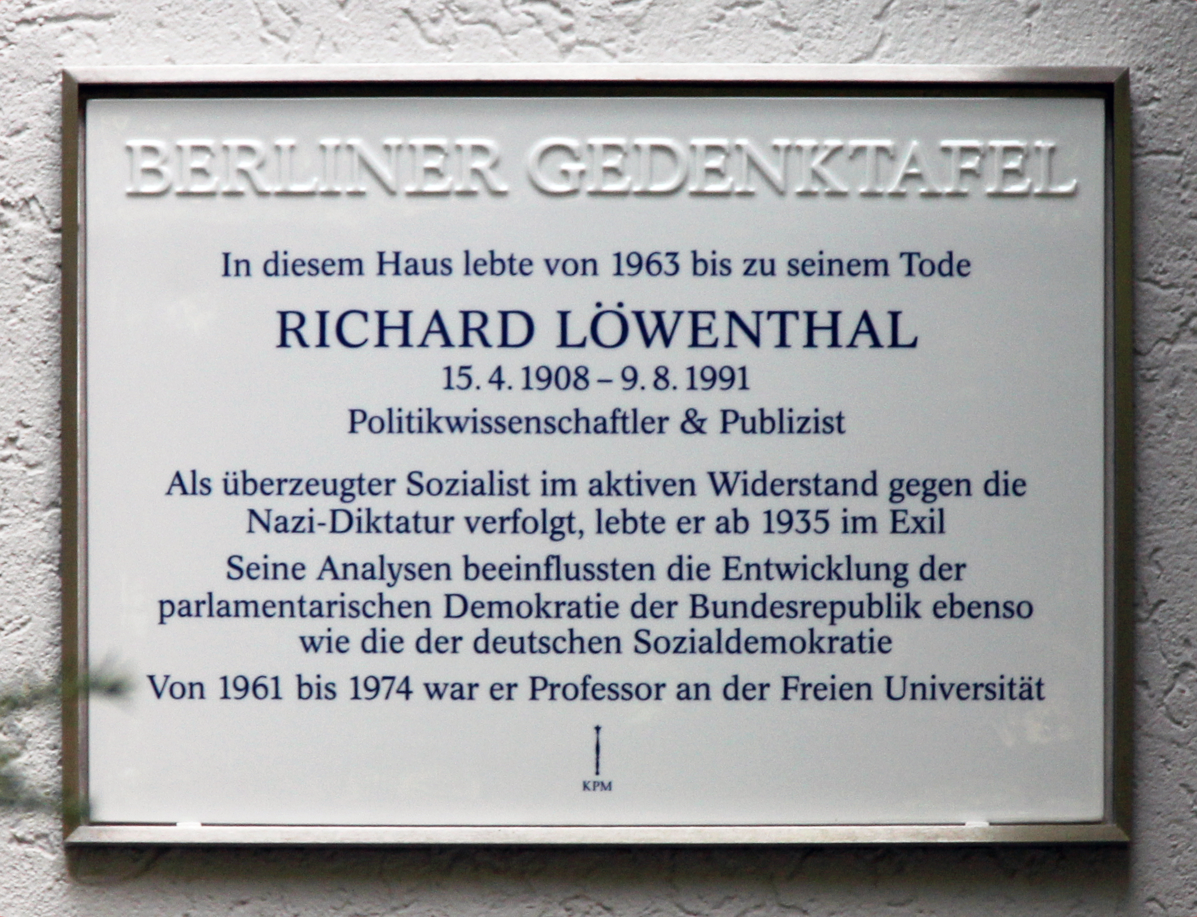 Berlin memorial plaque, Richard Löwenthal, Höhmannstraße 8, Berlin-Grunewald, Germany